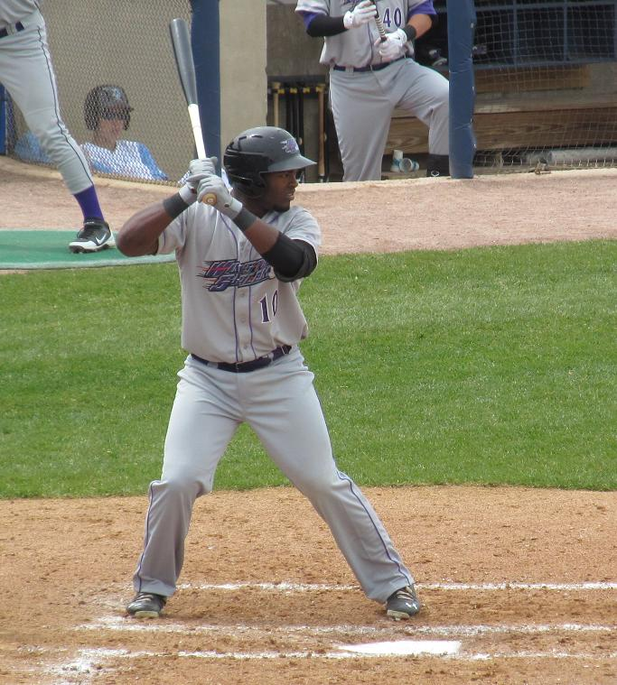 Courtney Hawkins in Wilmington DE April 28 2013